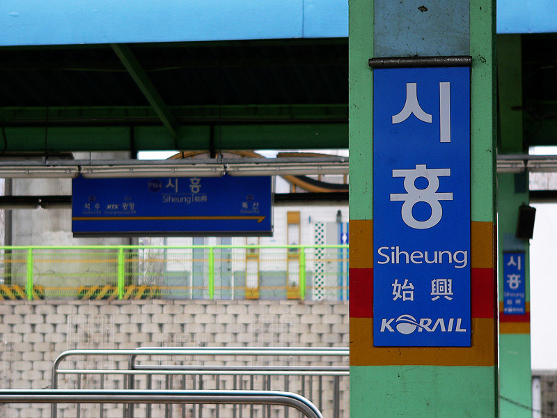 KORAIL Gyeongbu Line (Seoul Subway Line1) Geumcheon-gu Ofiice Station Station (Old Shiheung Station) Old Nameboard